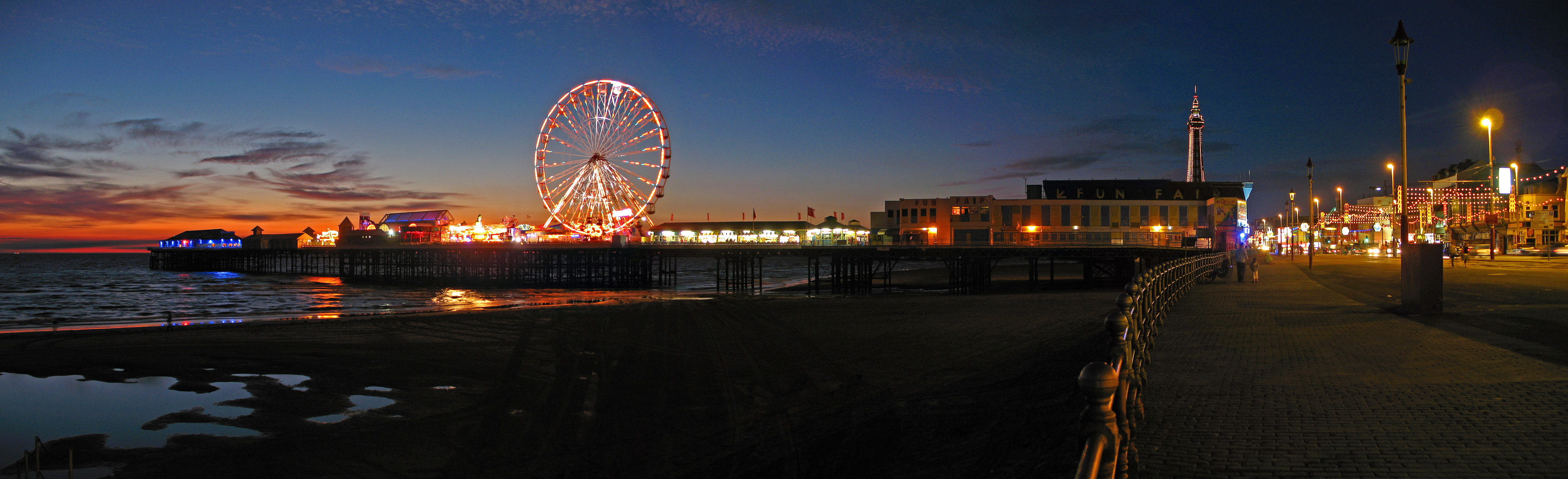 Blackpool, Lancashire, England at sunset.